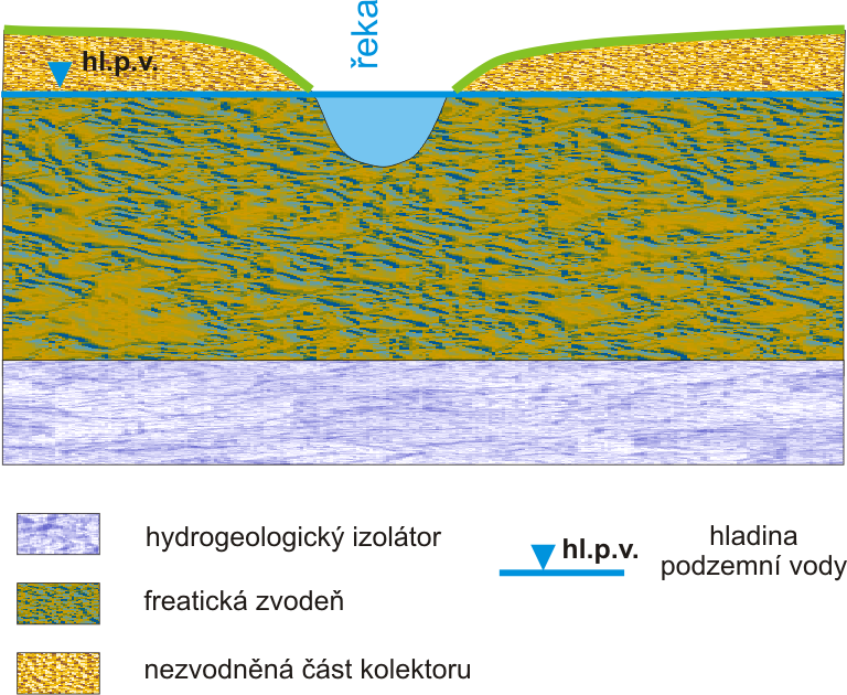 Phreatic groundwater body